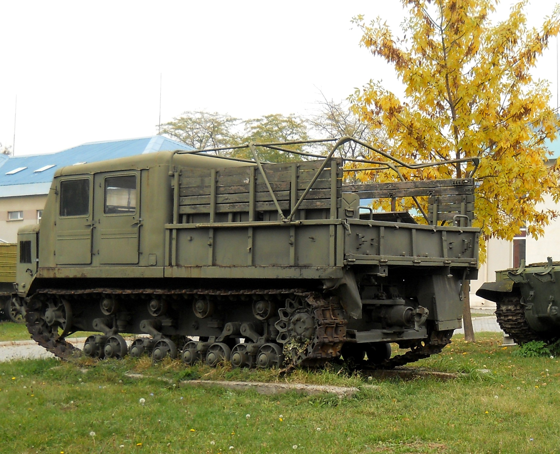 AT-S artillery tractor in the National Museum of Military History, Bulgaria.